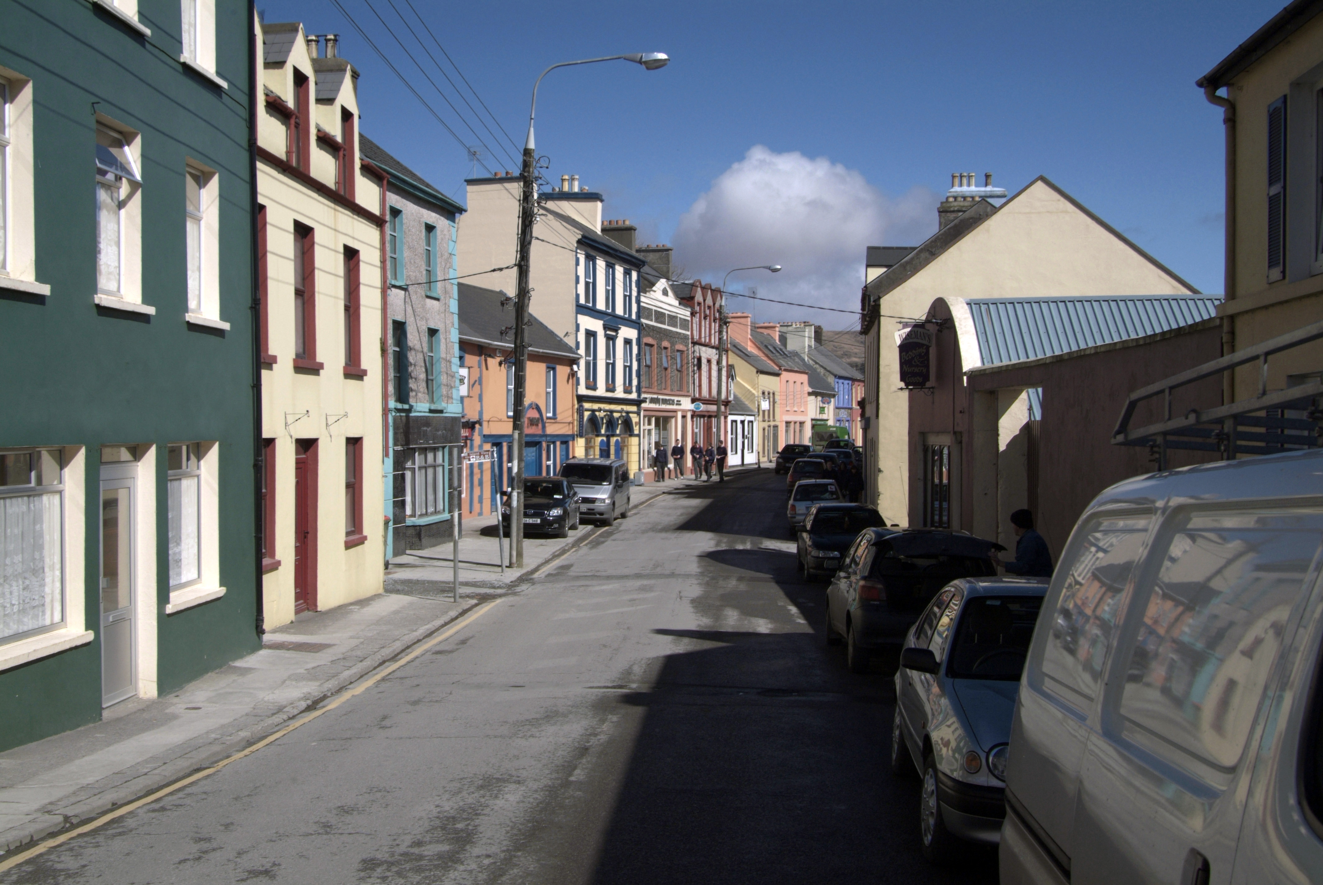 This photo shows the mainstreet of Castletownbere, County Cork, Ireland. Castletown is the capital of the Beara Peninsula with lots of colourful buildings.